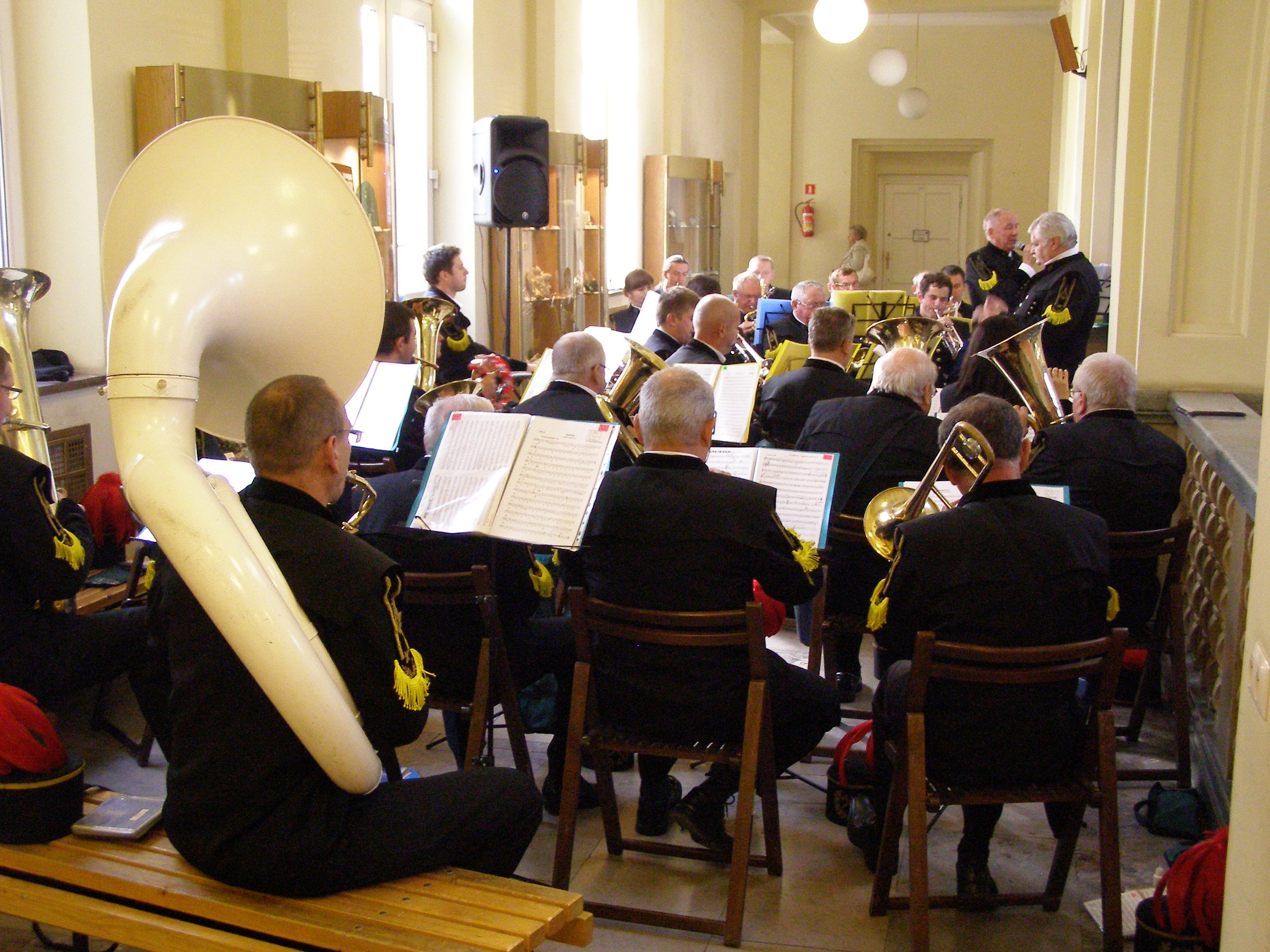 Kraków - AGH University of Science and Technology - concert of the AGH Representative Orchestra in the main building